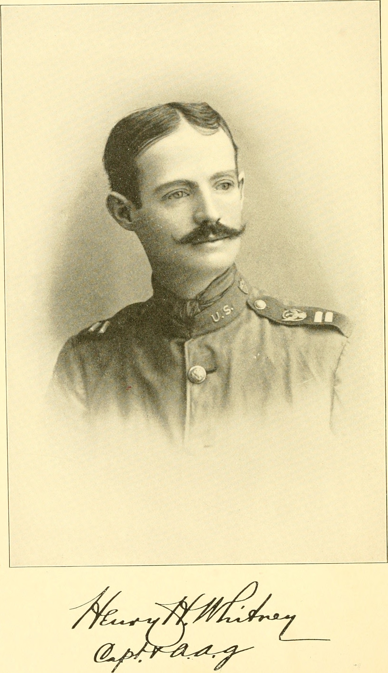 Title: The American-Spanish war; Year: 1899 (1890s) Authors: Subjects: Spanish-American War, 1898 Publisher: Norwich, Conn., C. C. Haskell & son Text Appearing Before Image: ^^^^^^^ Text Appearing After Image: I\ CHAPTER X.MILESS CAMPAIGN IN PUERTO RICO. BY Capt. henry H. WHITNEY, U. S. A,, Assistant Adjutant-General. During a campaign, whatever is not profoundly considered in all itsdetail is without result. Every enterprise should be conducted accordingto a system ; chance alone can never bring success.—Napoleon. PUERTO RICO was a strong base of supplies for theSpaniards in Cuba, and as it was known that the rainyseason did not begin until late in August, it seems tohave been the plan of the Major-General Commanding tostrike the first real blow there, making it a secondary base ofoperations against Cuba later in the fall. But the presenceof Cerveras fleet changed the plan, when the Navy asked forthe Armys assistance at Santiago. When this bugaboo of theseas had been so brilliantly disposed of, and General Mileshad taken reinforcements to Shafters army and with themthe prestige of a Master of Victory, he hurried to Guan-tanamo to assemble his Puerto Rican expedition. Every contingency th